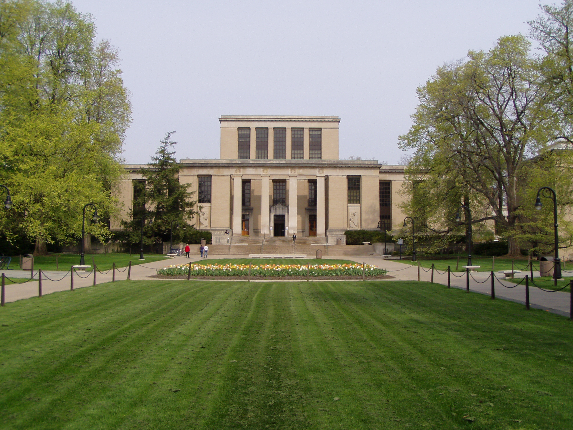 The Pattee Library and mall at Penn State University. In July 1994, it was announced that a five-story addition to Pattee Library was to be named the Paterno Library, in honor of Joe and Sue Paterno for their leadership and promotion of Penn State's education programs. The groundbreaking ceremony for the new Paterno Library was held on April 25, 1997, and it was dedicated along with the newly remodeled Pattee Library on Sept. 8, 2000. Both libraries share the same circulation desk.